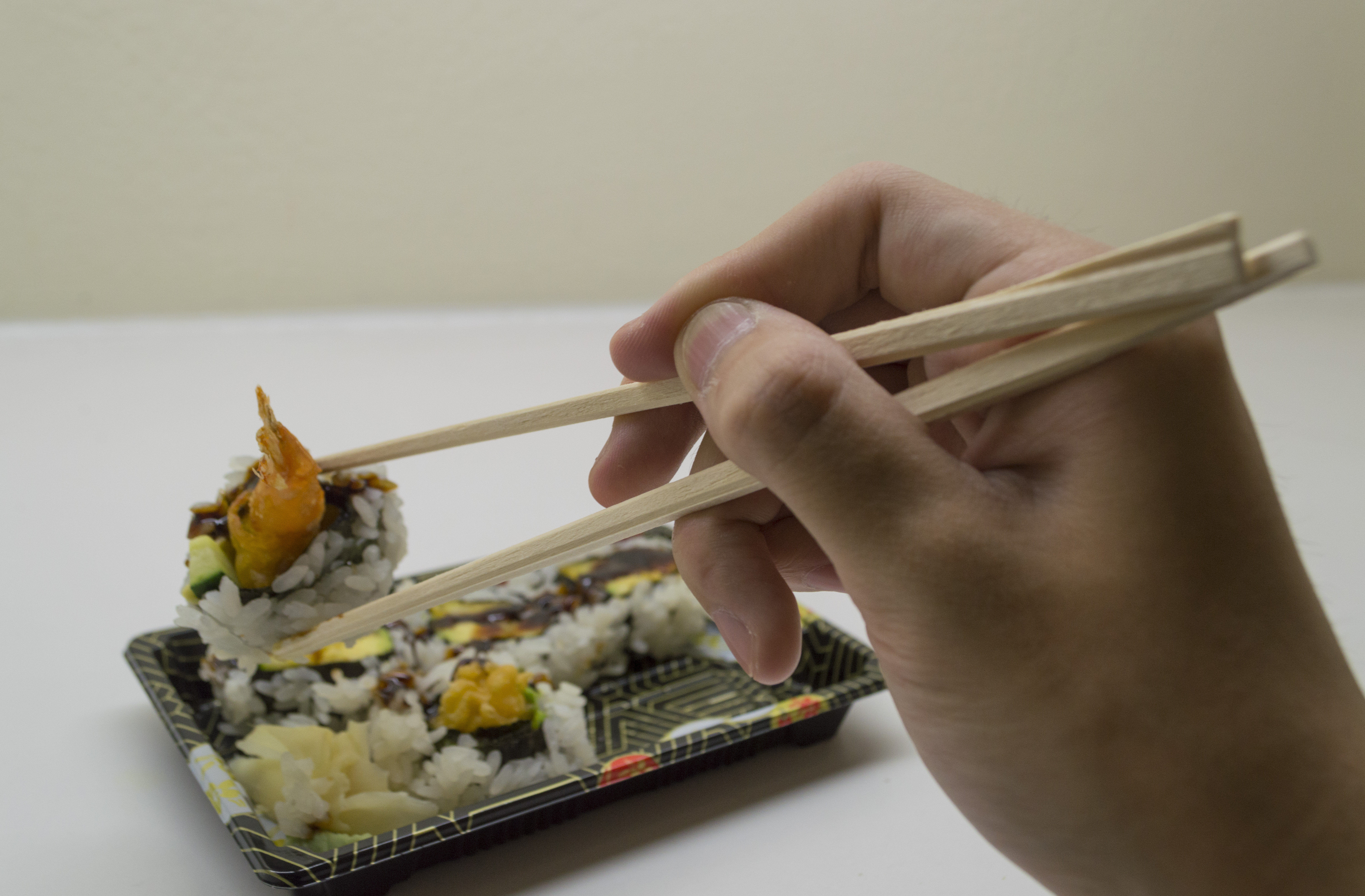 This picture shows how to use chopsticks properly.